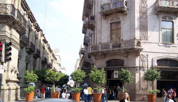 Description: Pedro Moreno Street Source: Own Job Date: 2005